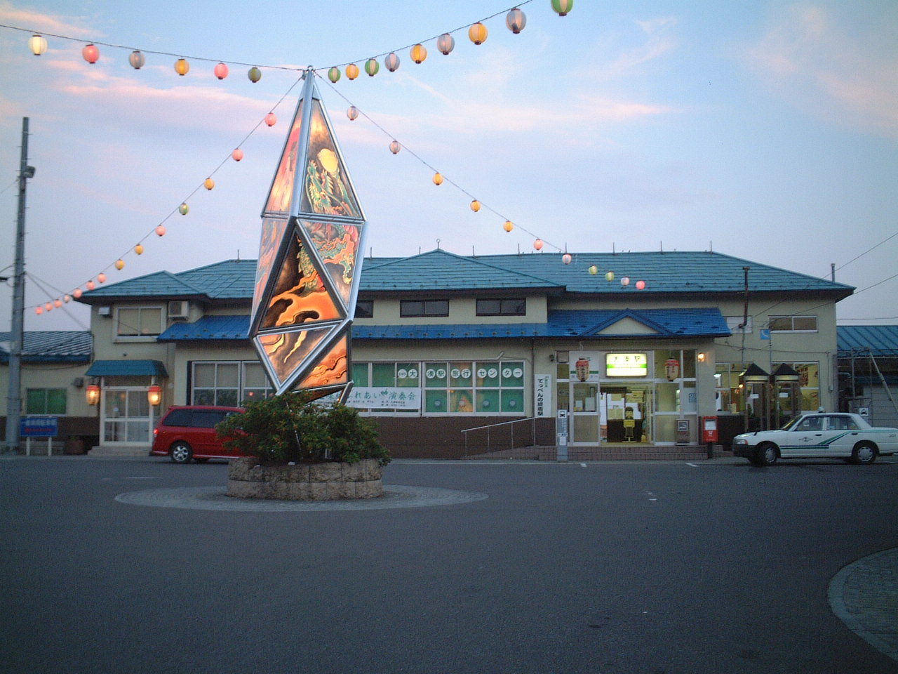 Ōminato Station, on the Ōminato Line, Mutsu, Aomorija:大湊駅